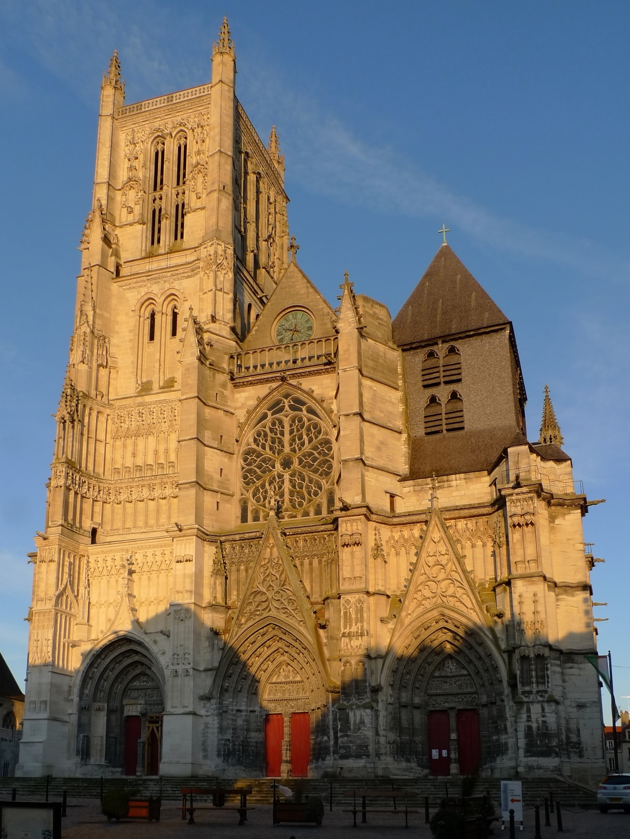 West facade of the Cathedral of Meaux